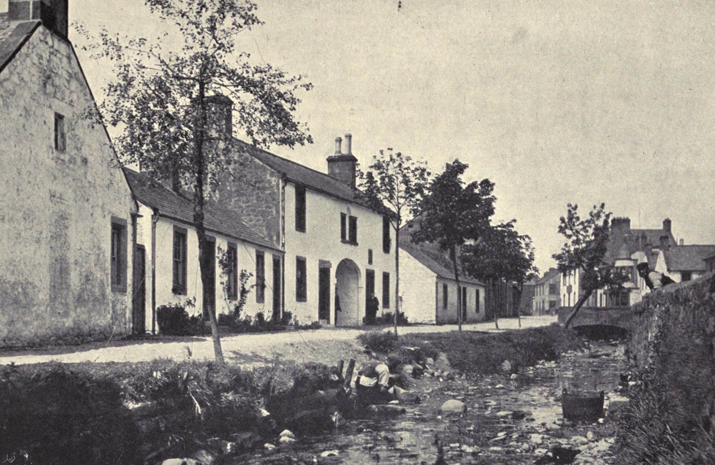 Ecclefechan at the Birth-House